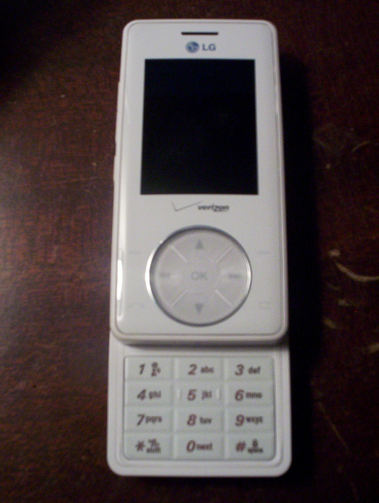 This is my LG Chocolate Phone